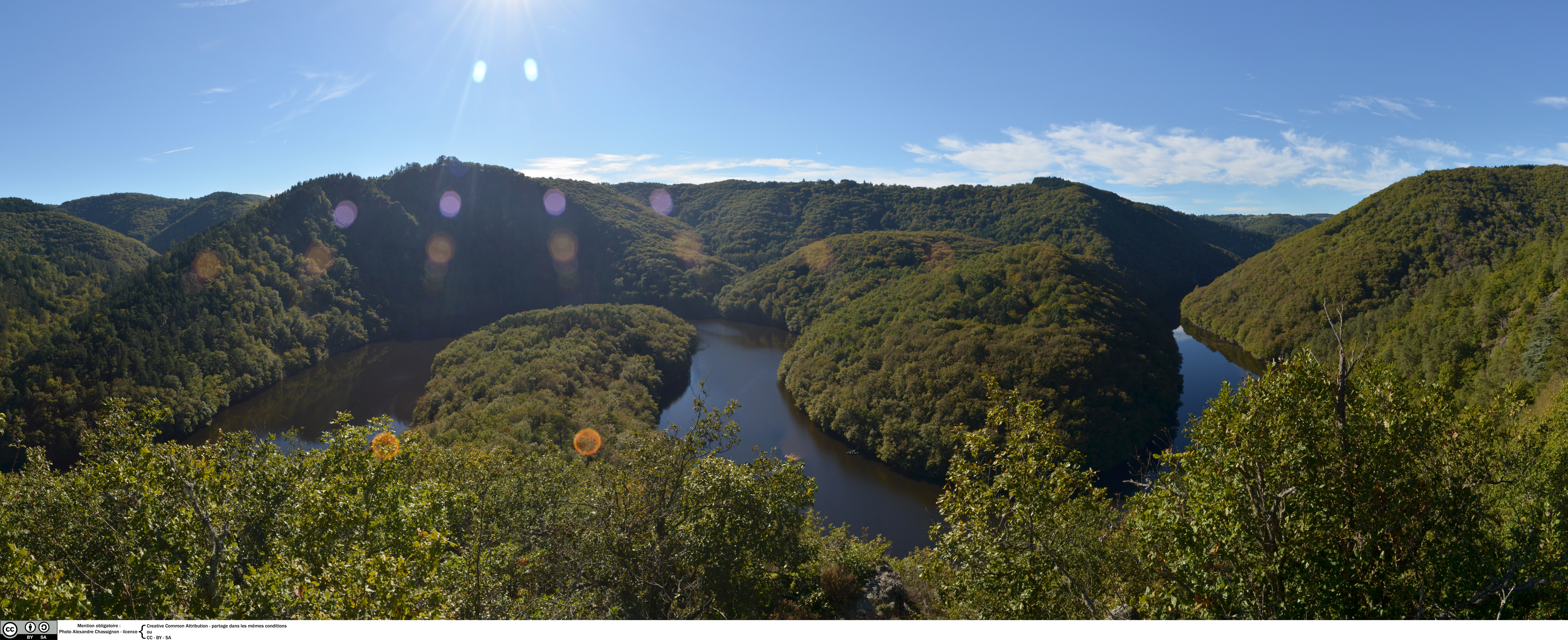 Panoramic view of the twists and turns of the river Sioule in Queille (Auvergne, France)